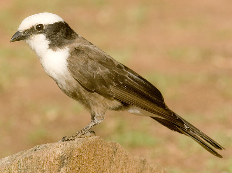 White-crowned Shrike from Serengeti National Park, Tanzania